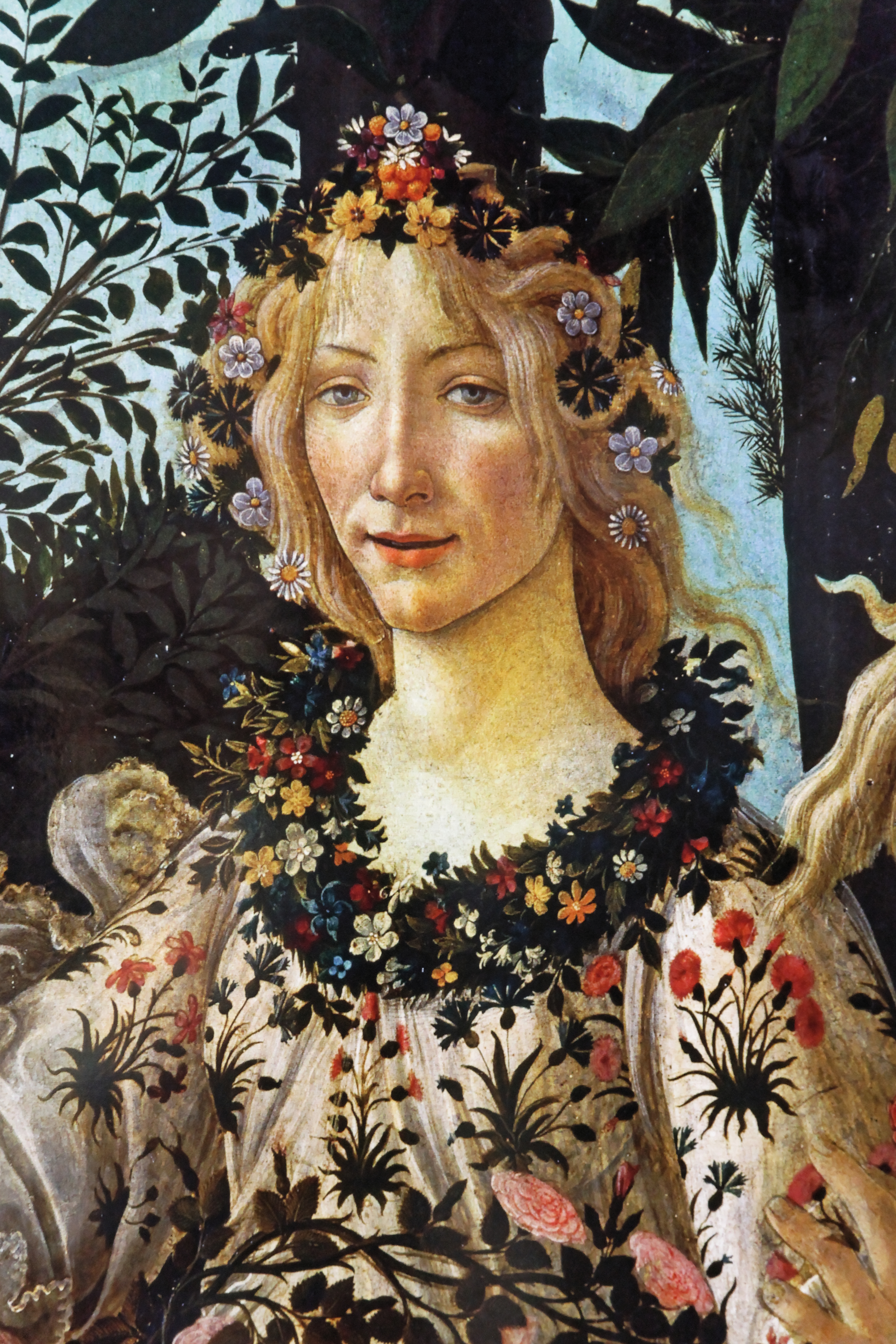 Primavera by Sandro Botticelli, "Der schöne Schein" exhibition of replicas of well-known artwork in the Gasometer in Oberhausen